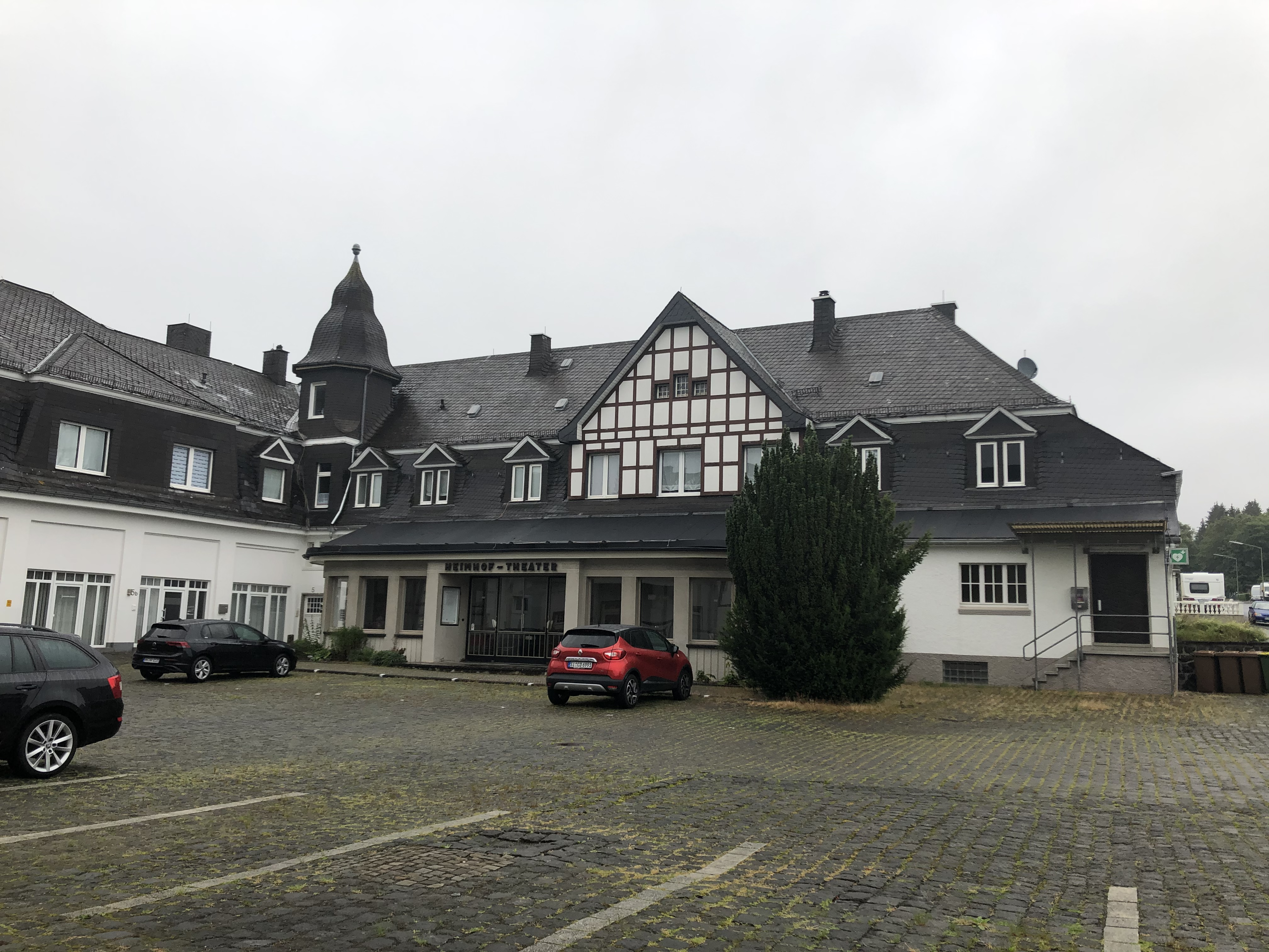 This is a picture of the Heimhof theatre in Würgendorf.